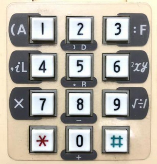 Dials Cover